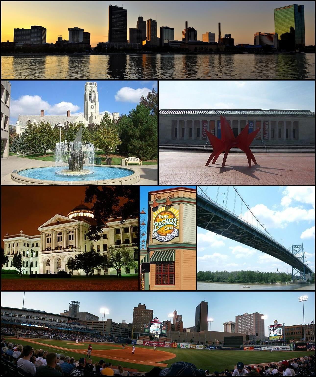 Montage of Toledo images. From top to bottom left to right: Toledo Skyline The University of Toledo The Toledo Museum of Art Lucas County Courthouse Tony Packo's Cafe Anthony Wayne Bridge Fifth Third Field